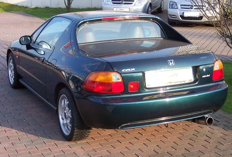 Honda Del Sol - CRX variant